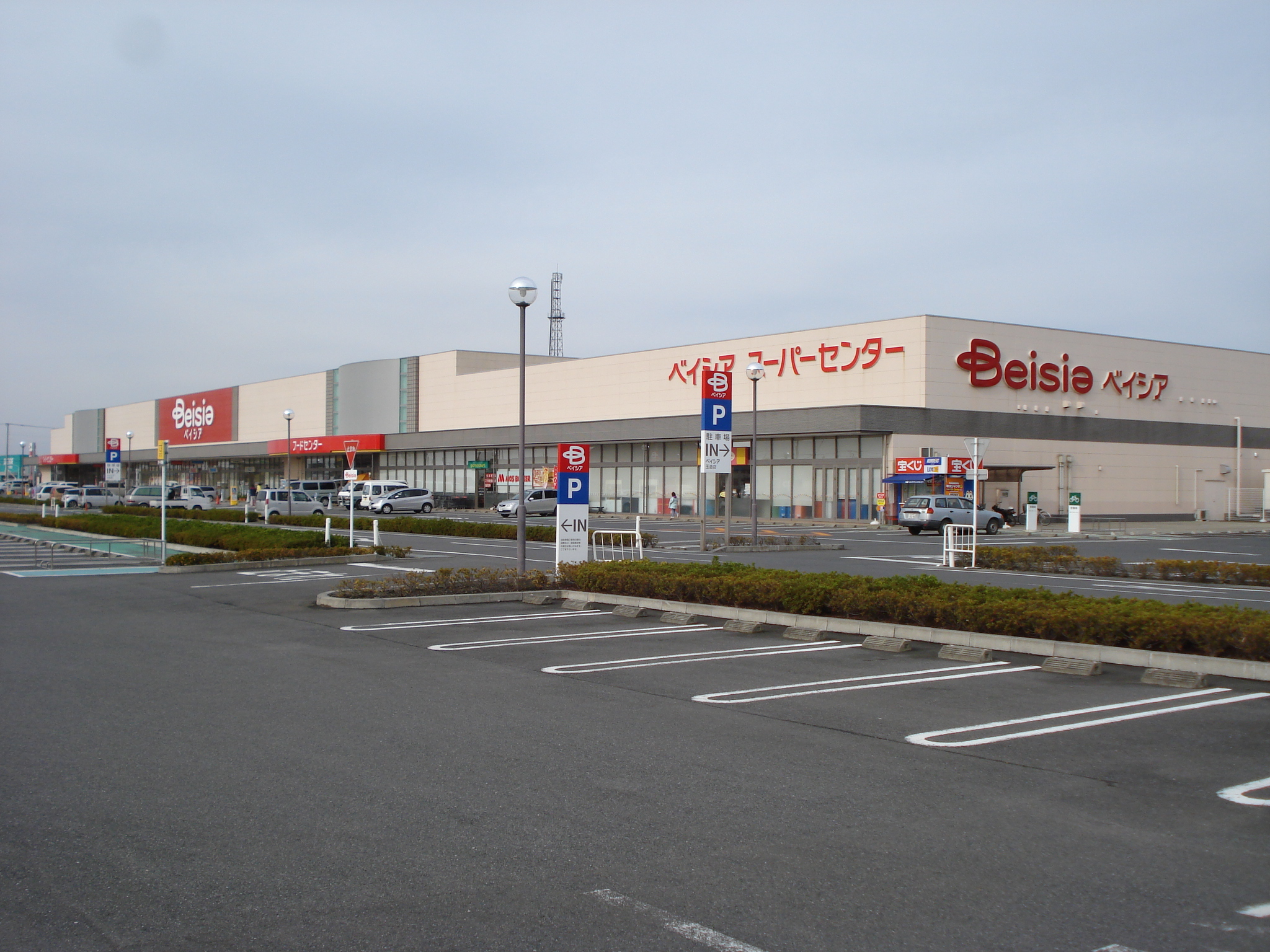 Beisia Tamatsukuri Supercenter (Namegata-city, Ibaraki)